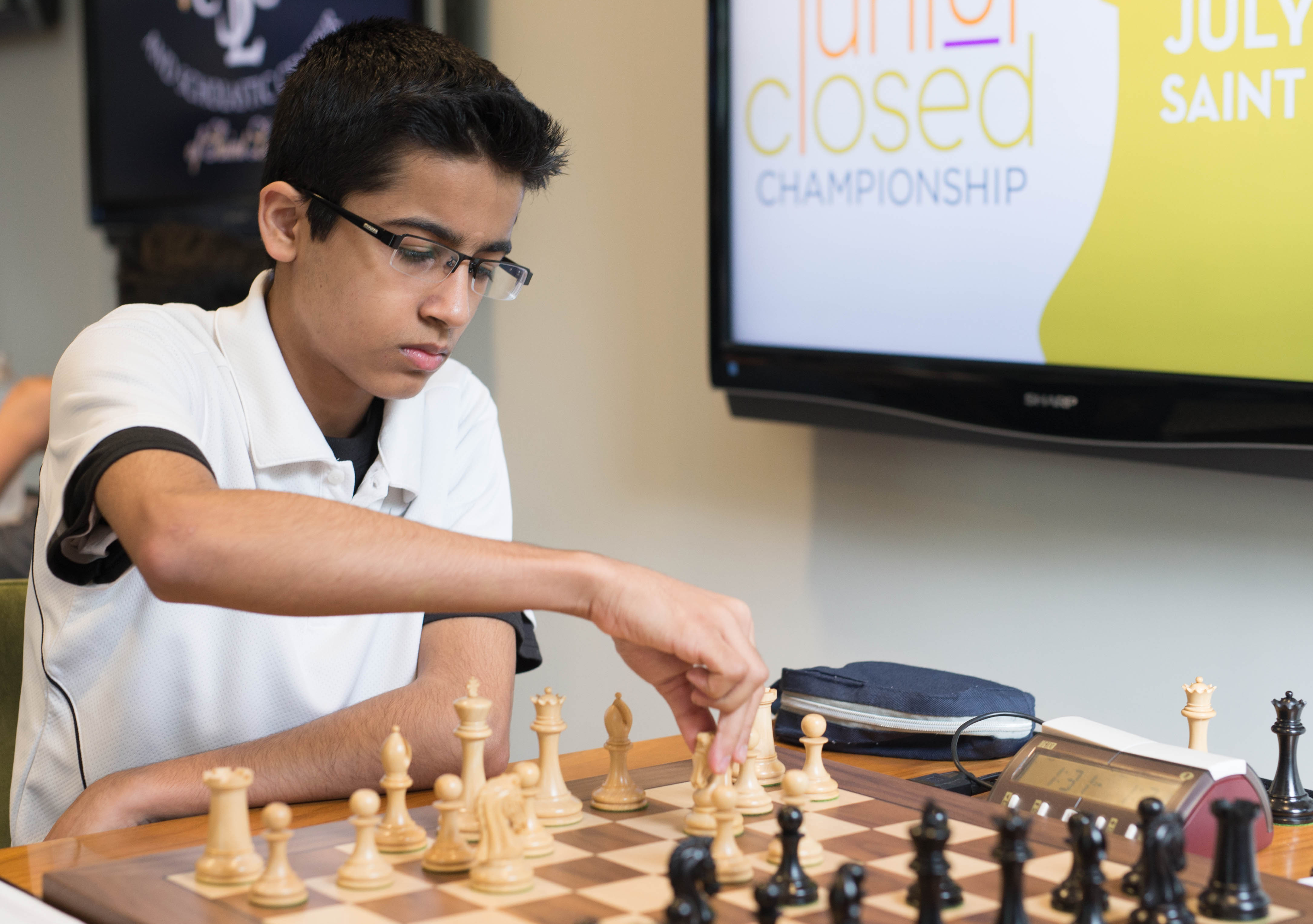 Akshat Chandra at the US Junior Championship in 2015, where he won the title.